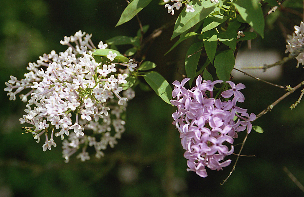 Syringa 'Correlata'